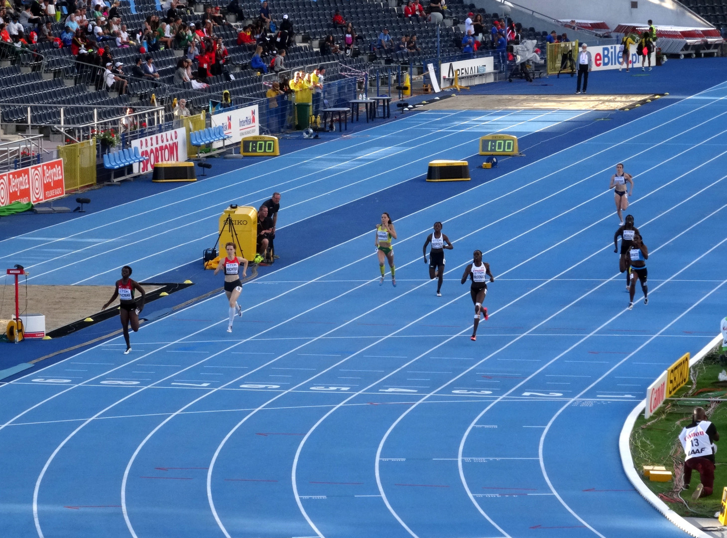 2016 IAAF World U20 Championships in Bydgoszcz, 400m women qualifications